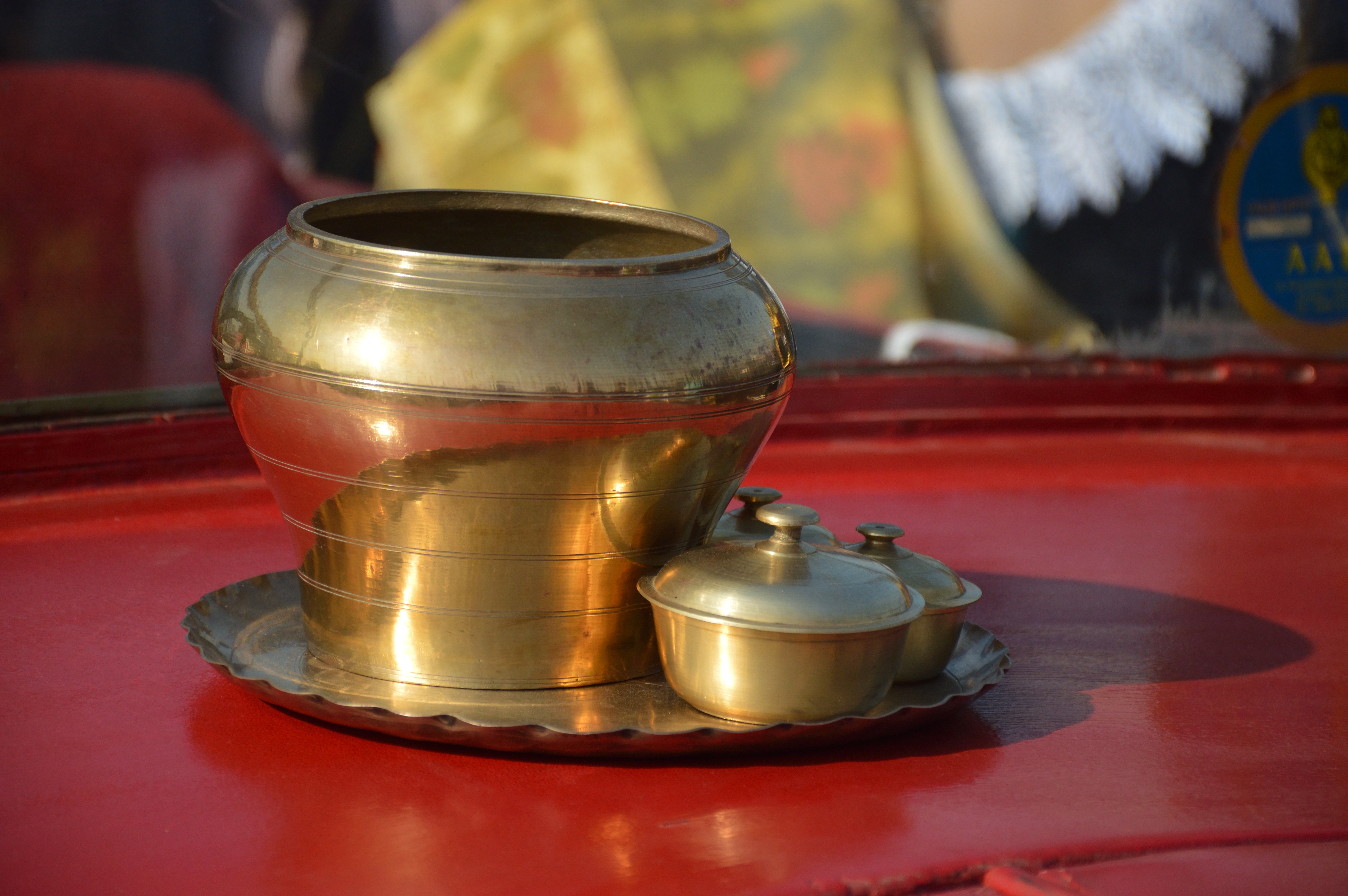 This photograph was taken during ‘The Statesman Vintage & Classic Car Rally 2017’at the Eastern Command Sports Stadium of Fort William, Kolkata.The rally was held at the morning on Sunday, 29 January 2017 at the ECS Stadium, where 188 entrants were registered with their cars and bikes/scooters manufactured from 1906 to 1975. This one day colorful festival usually takes place on a Sunday of every January in Kolkata since 1968 with full of period costume and cultural period pieces.